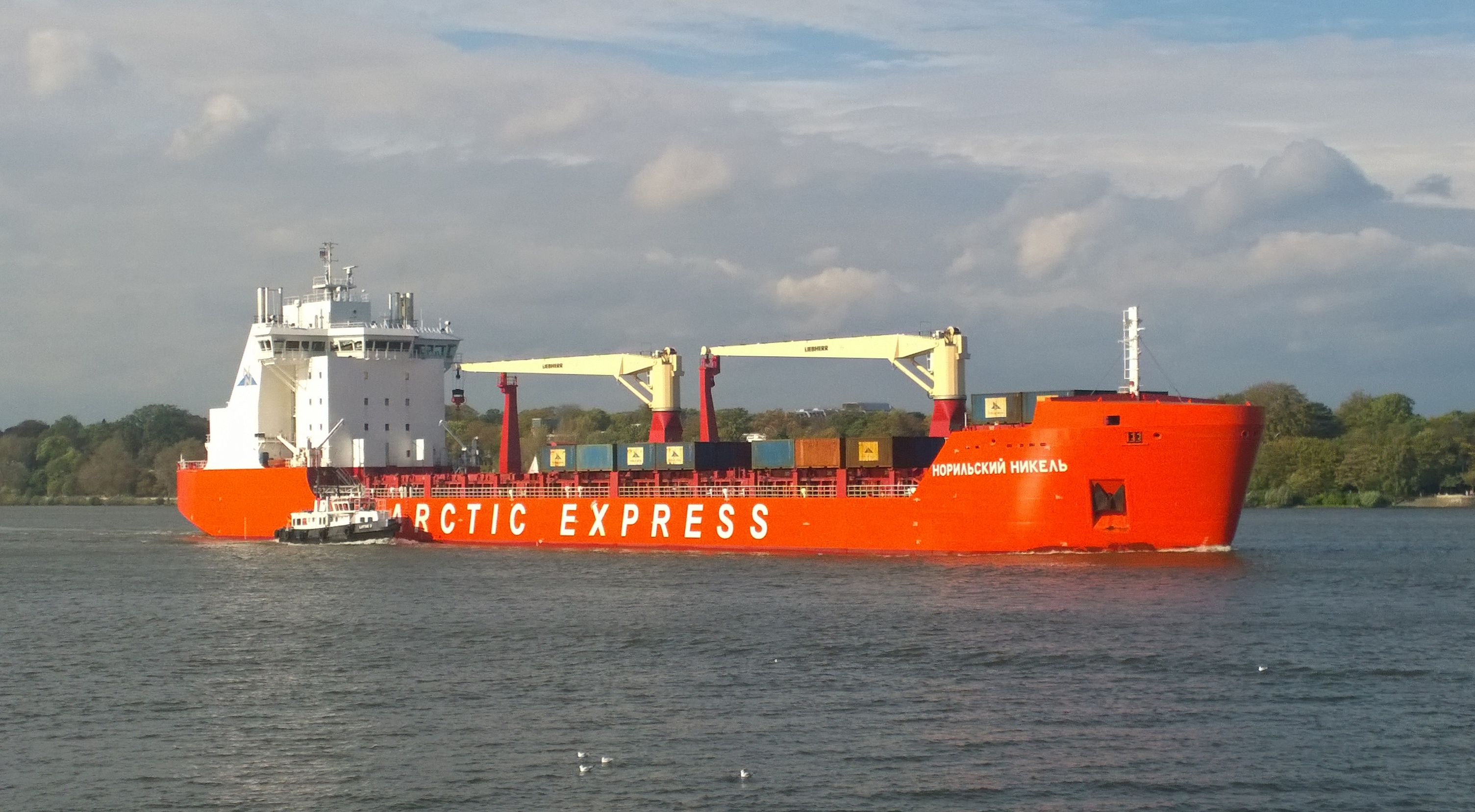 Double action special Arctic Sea ship Norilskiy Nickel on the river Elbe with destination port of Hamburg